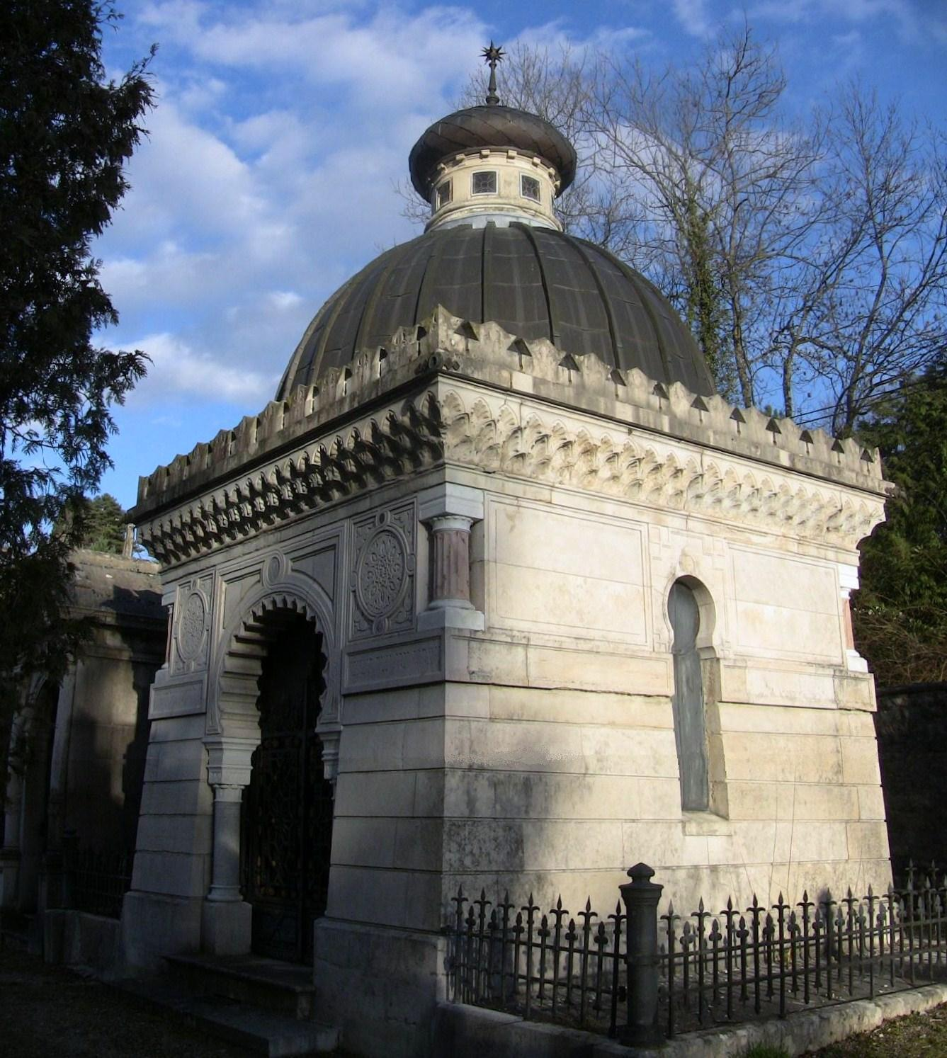 Sepulchre of the jewish cemetery of Besançon (Doubs, France).